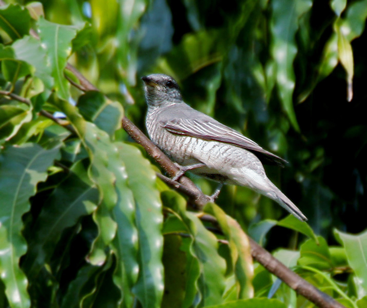 Black-headed Cuckoo-shrike Coracina melanoptera in Kinnerasani Wildlife Sanctuary, Andhra Pradesh, India.